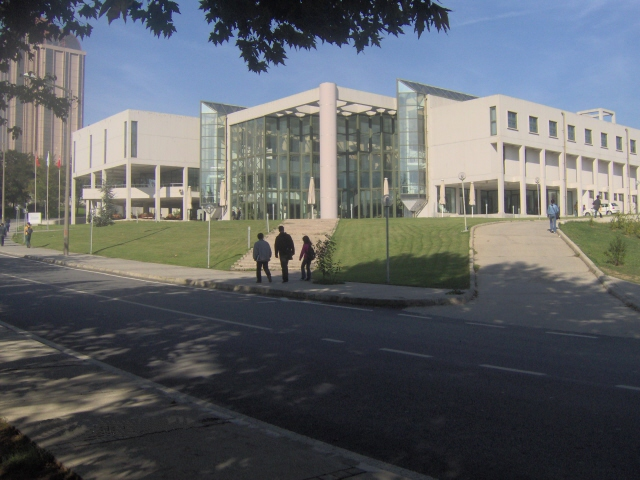 An image from the Turkish Wikipedia. The copyright holder of the original work released it into the public domain.